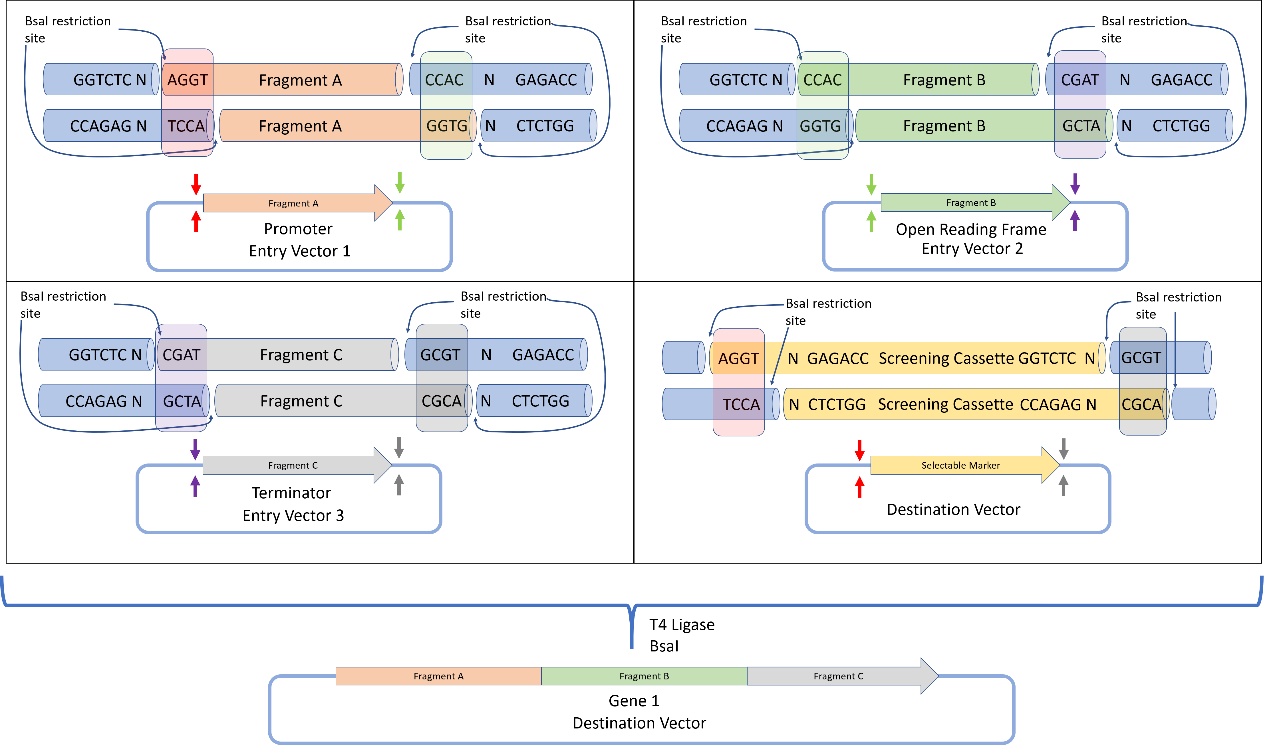 Three DNA parts are assembled into a gene using the Golden Gate assembly method